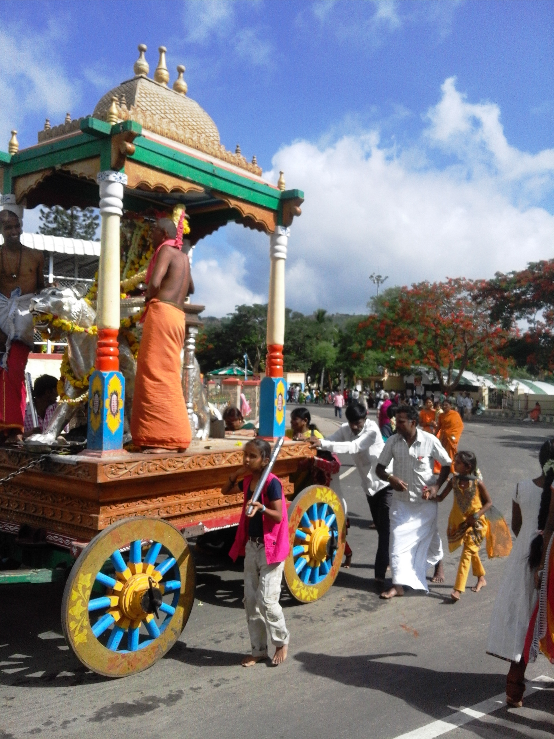 Male Mahadeshwara Hills, Kollegal, Karnataka.